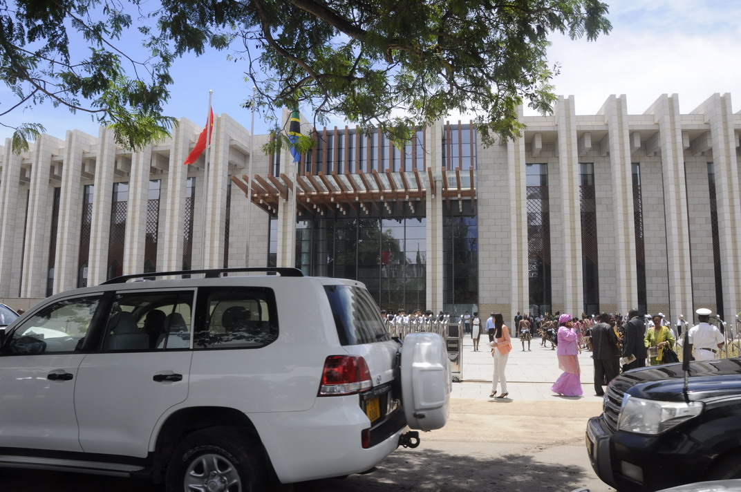 The newly built Julius Nyerere International Convention Centre in Dar es Salaam.